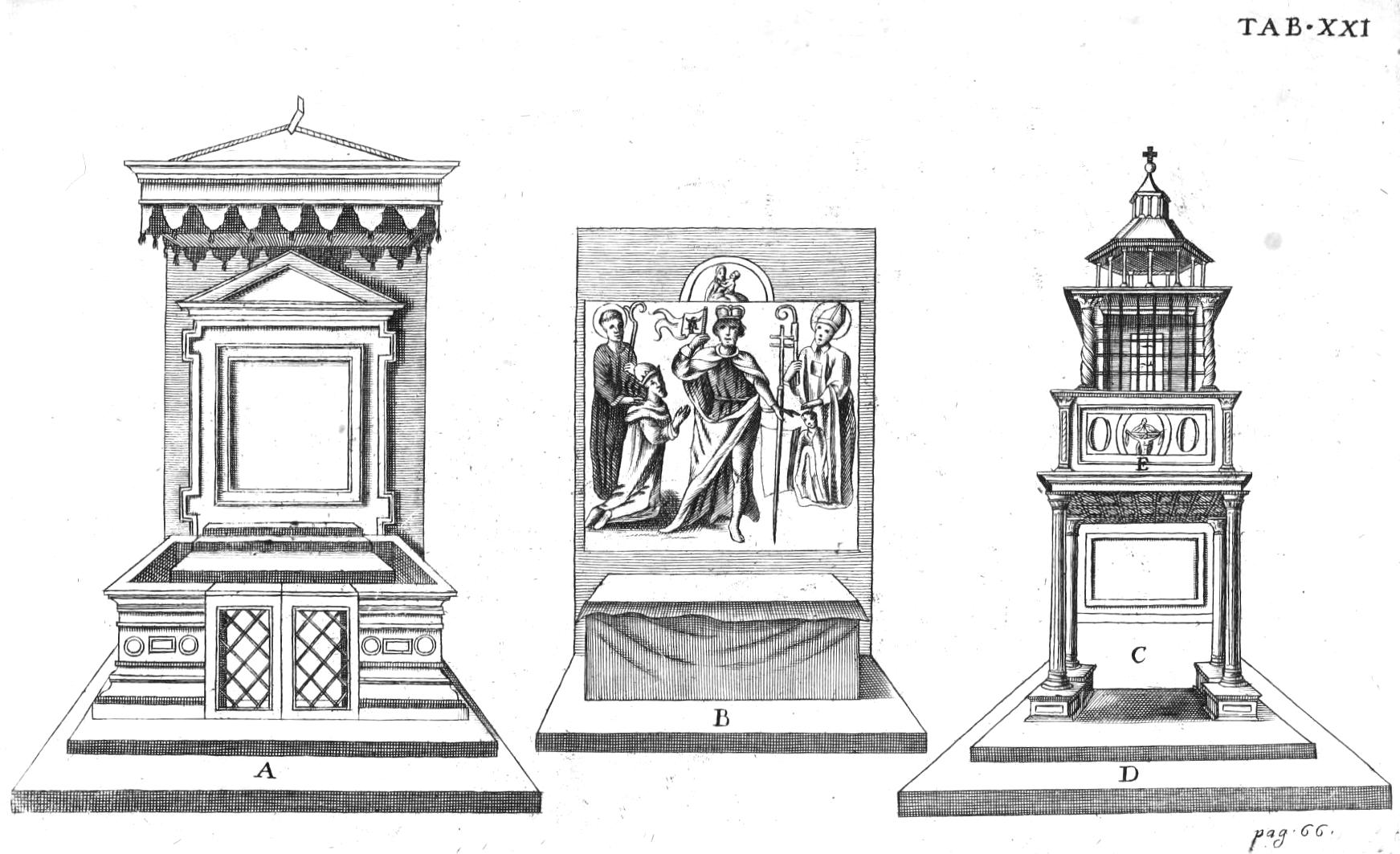 Engravings of (old) Saint Peter's Basilica in Rome.